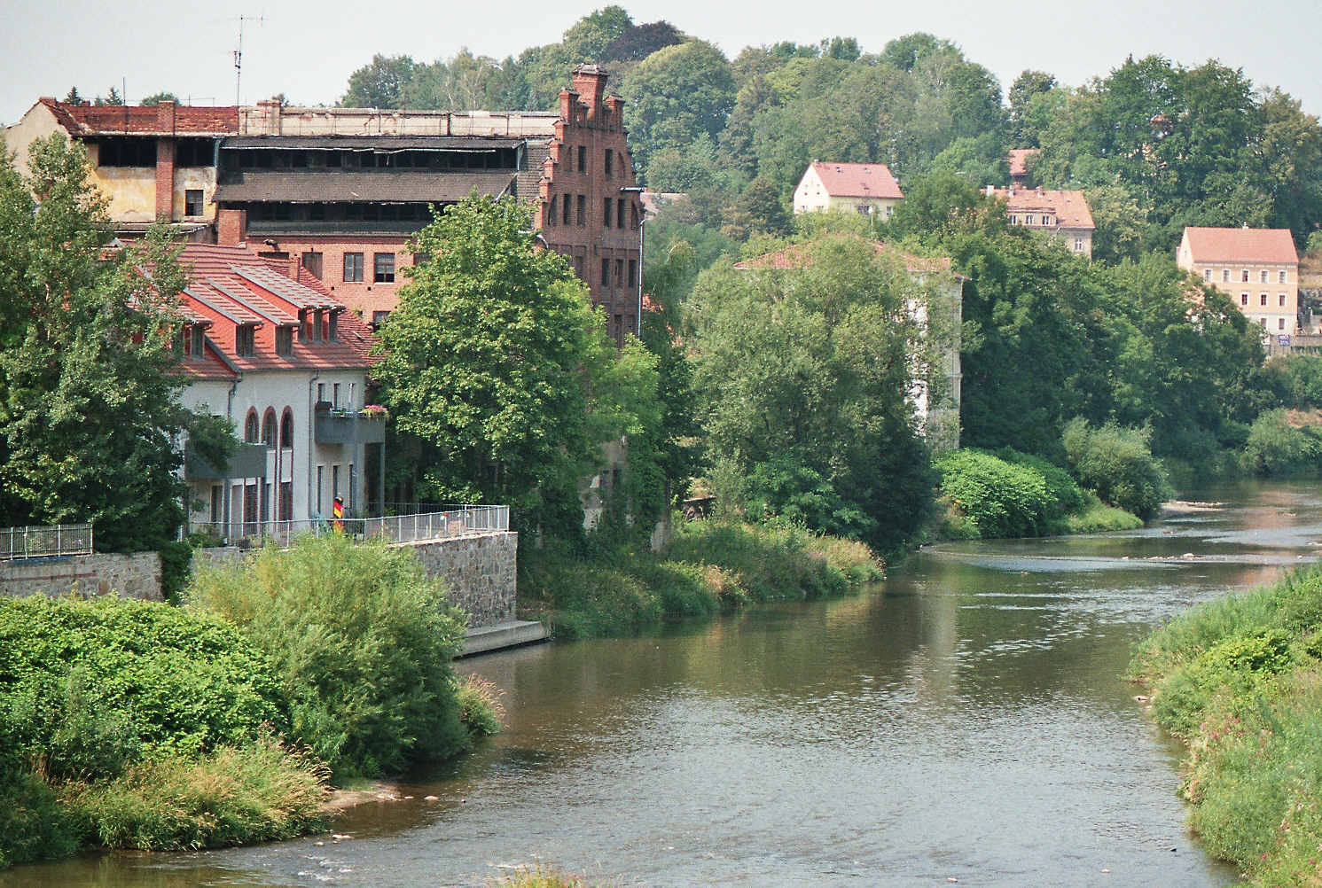 Lusatian Neisse, border between Görlitz (Saxony/Germany, on the left) and Zgorzelec (Poland)